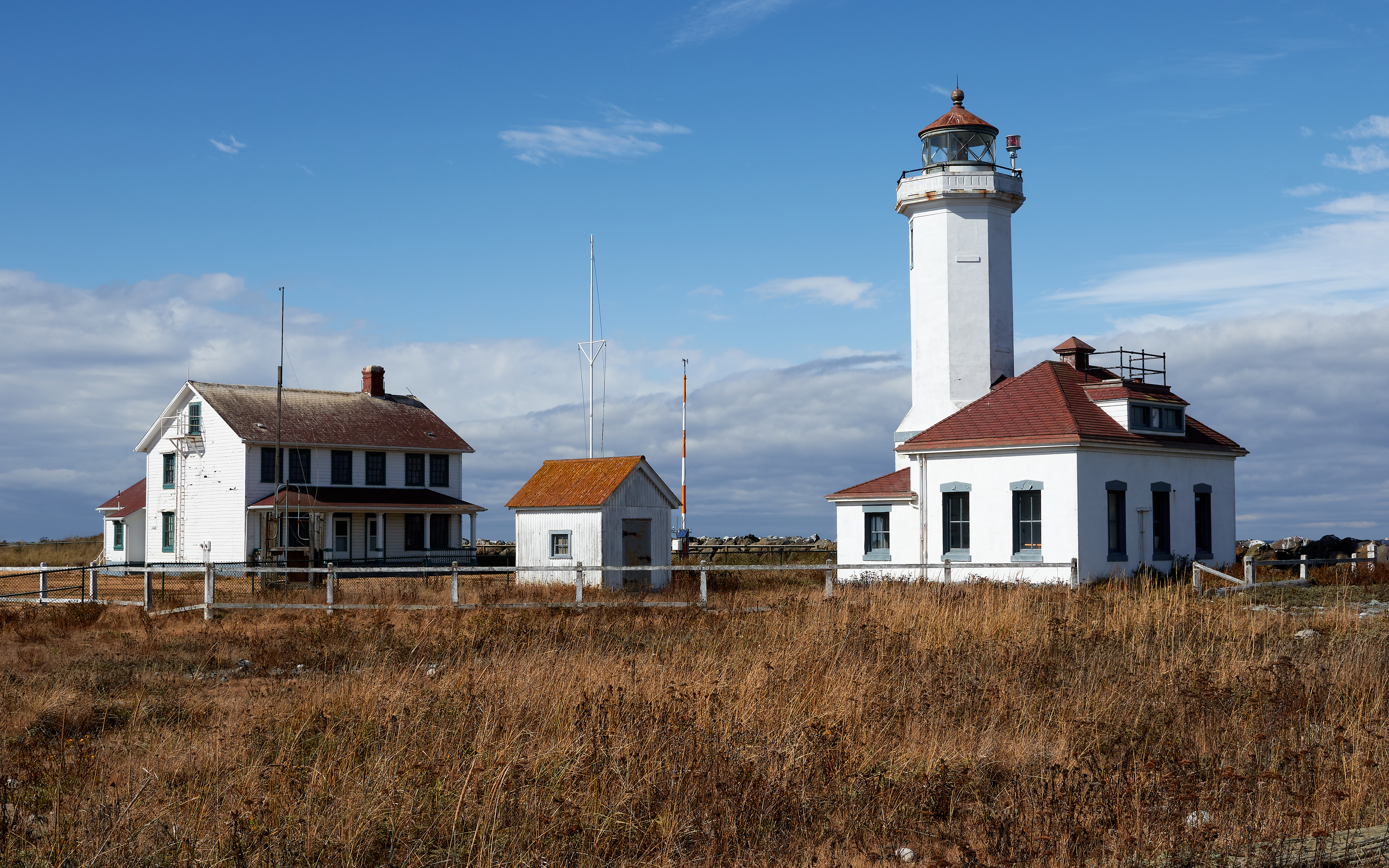 Point Wilson Light Station at Fort Worden State Park, Jefferson County, Washington State